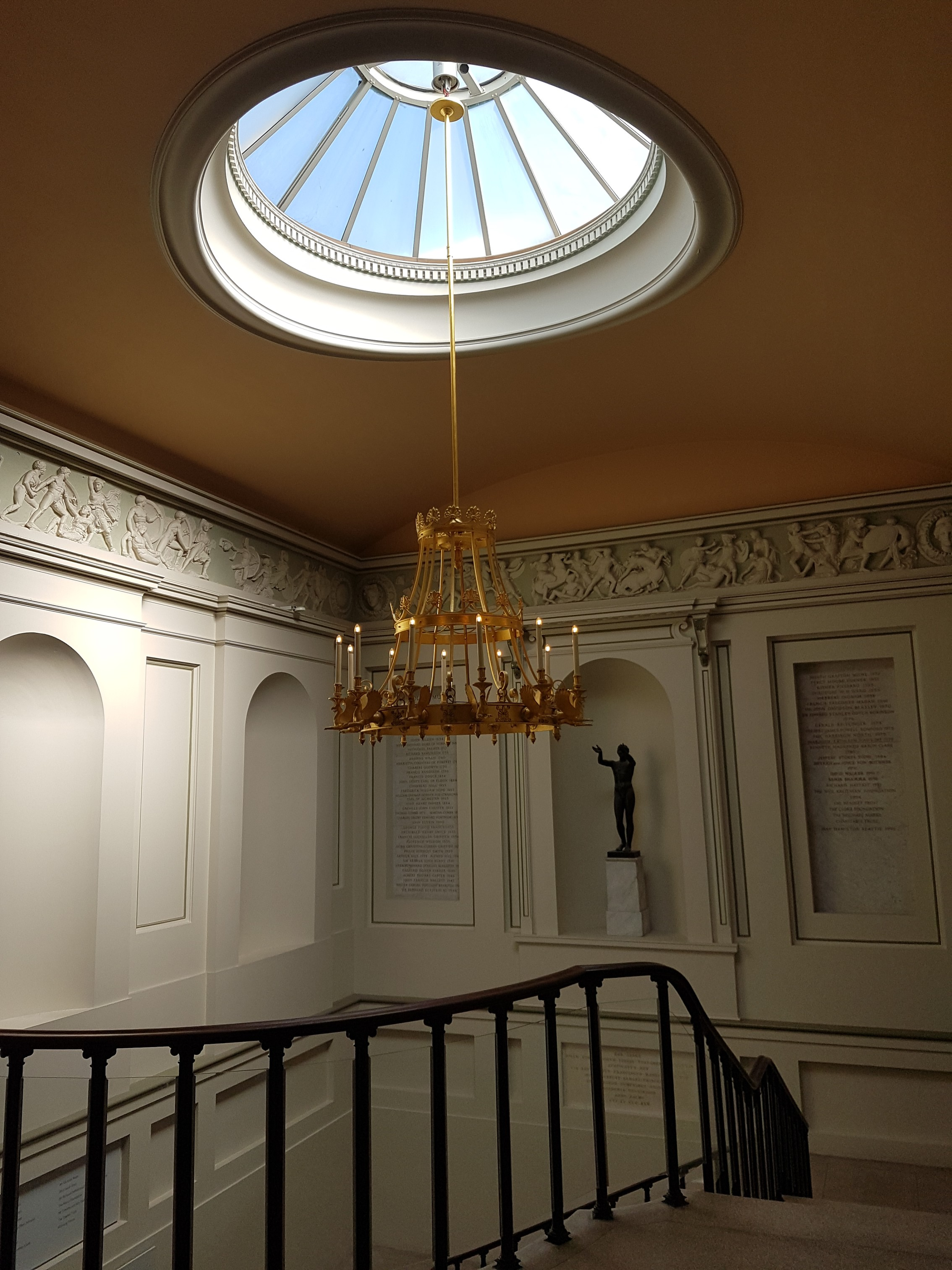 Top floor detail from the Ashmolean Museum in Oxford. Skylight, neoclassical frieze and chandelier room, with stairs leading to lower floors.